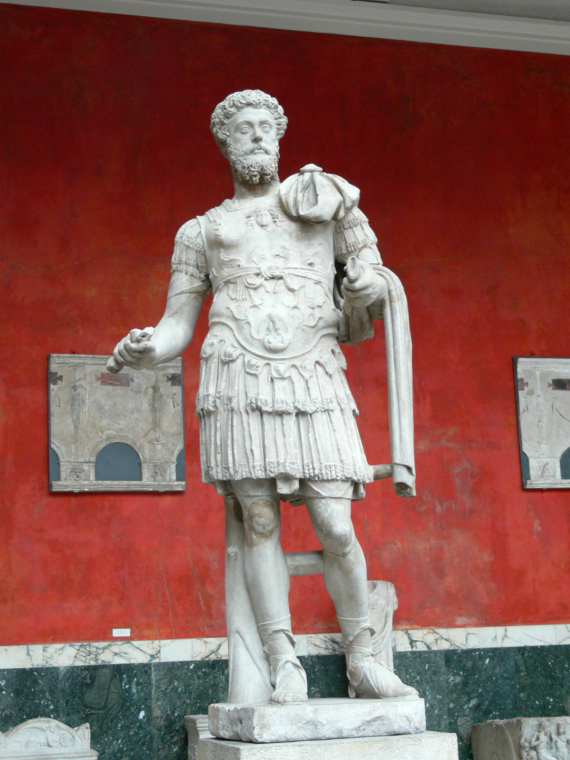 Ny Carlsberg Glyptothek, Copenhagen. Statue of Roman emperor Marcus Aurelius.